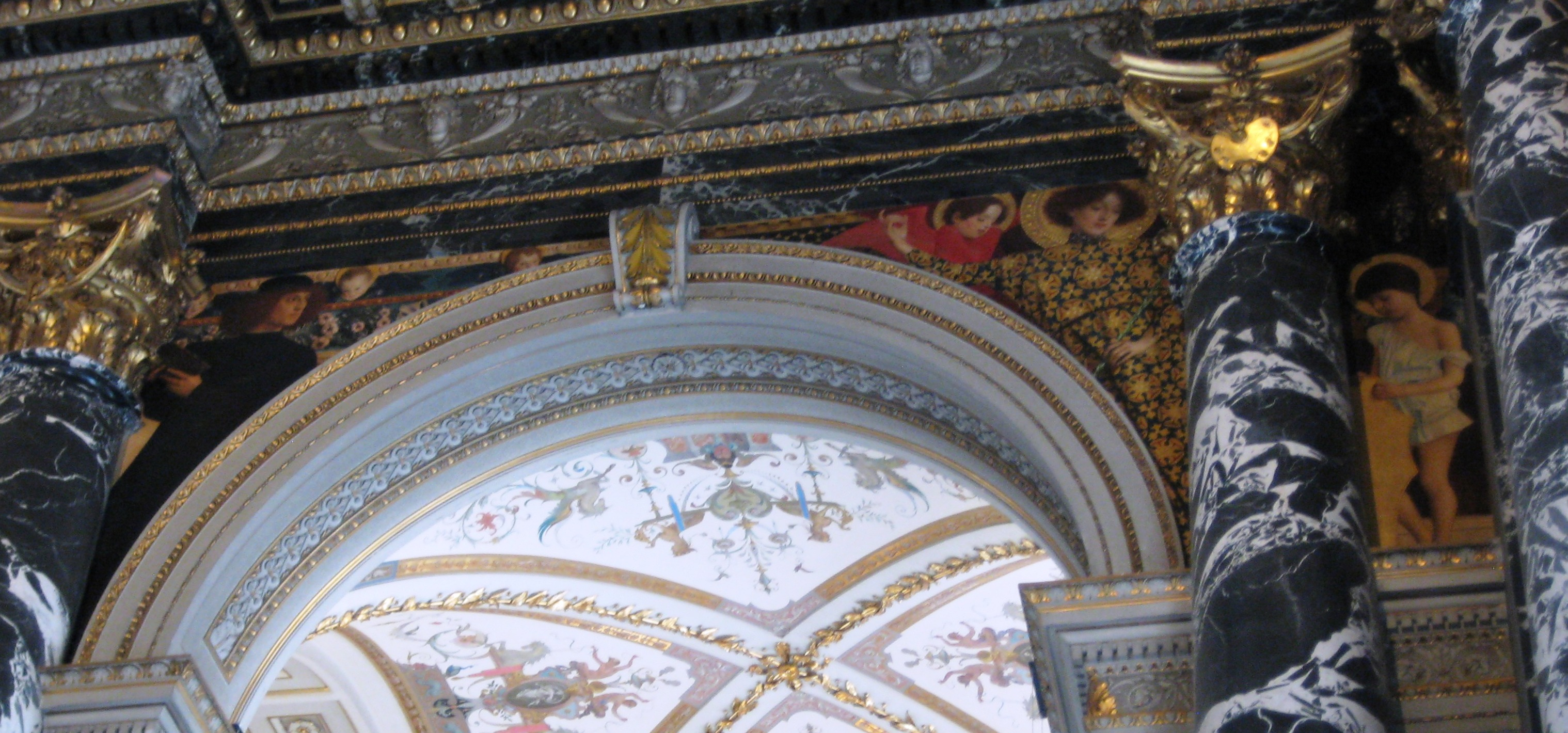 Gustav Klimt: Old Italian Art (Ceiling above the grand staircase, Kunsthistorisches Museum, Vienna)